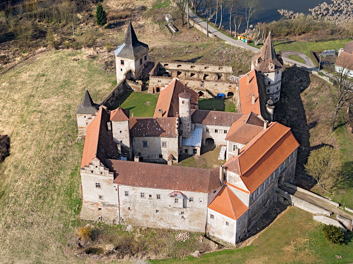 Castle Červená Řečice